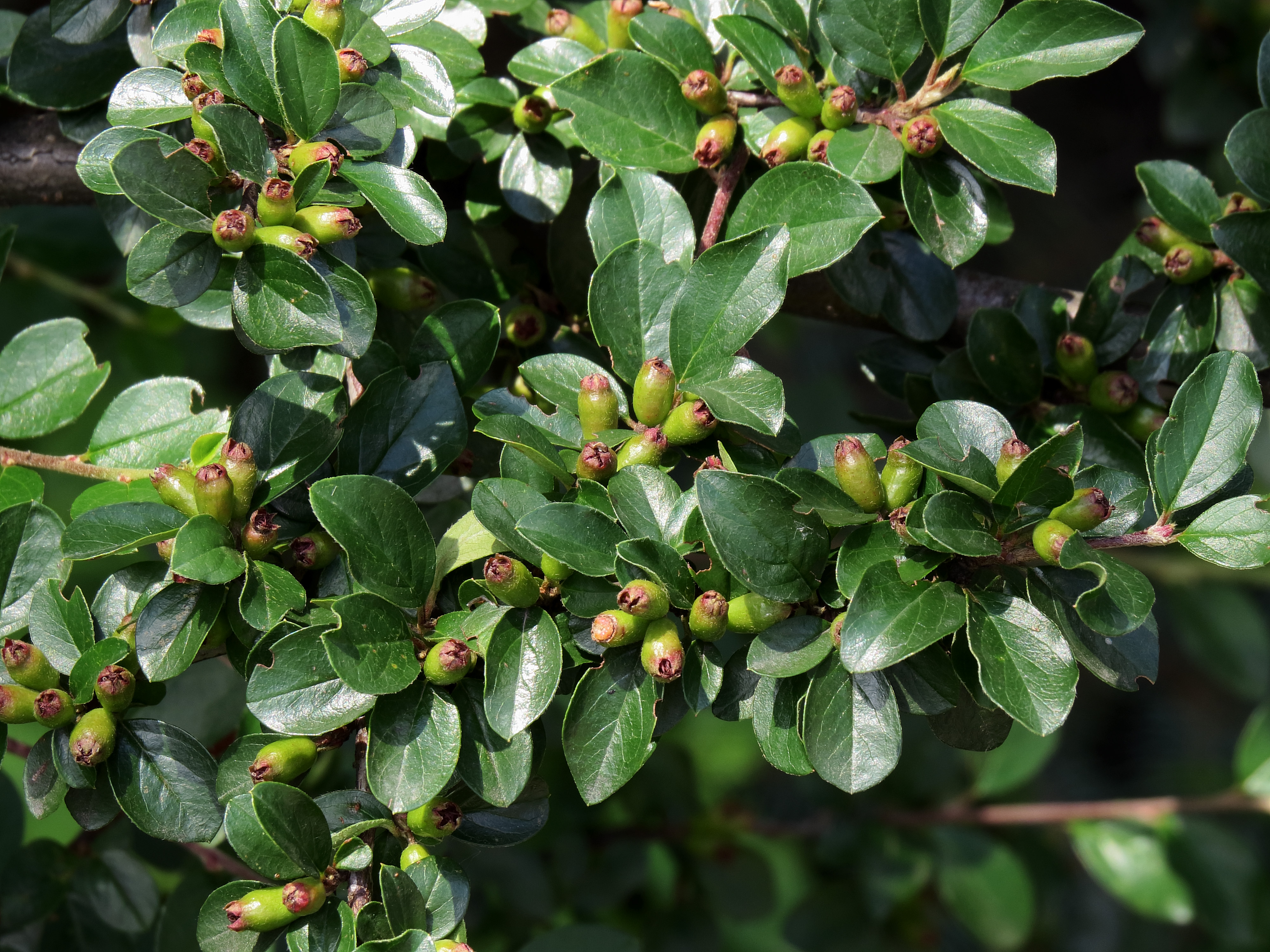 Cotoneaster divaricatus in Fomin botanical garden, Kiev, Ukraine